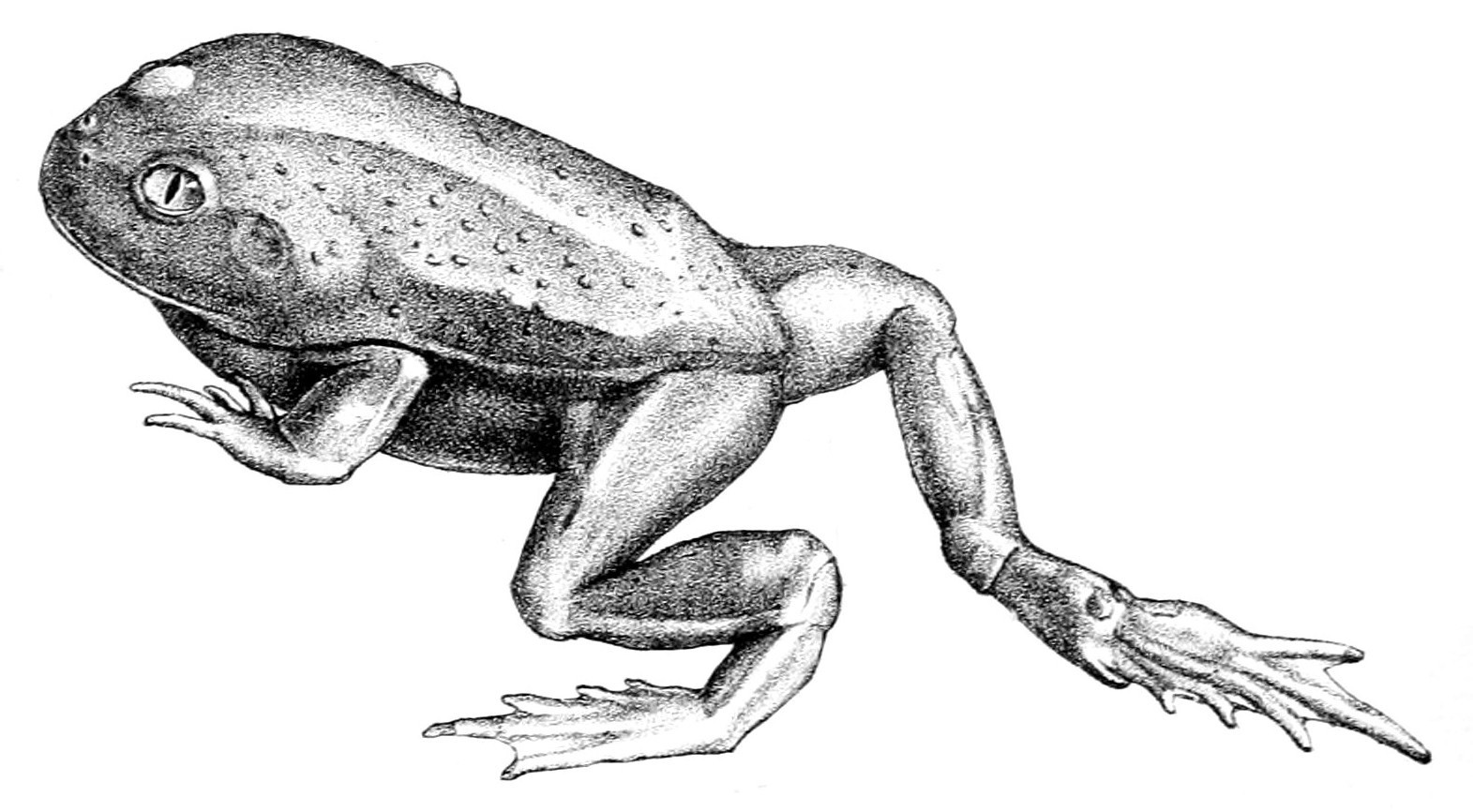 Chiroleptes platycephalus = Litoria platycephala